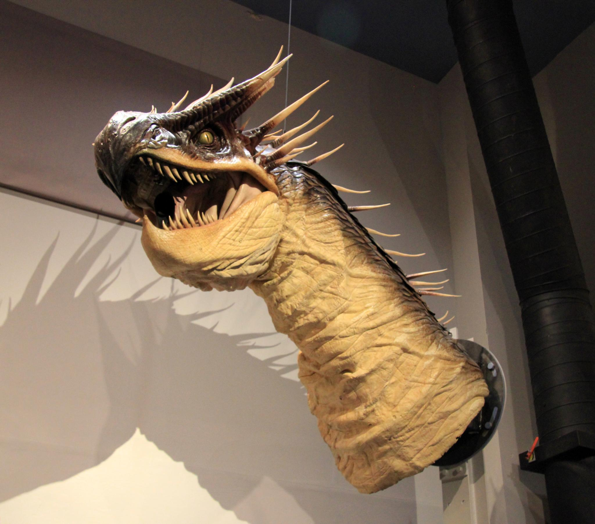 Warner Bros. Studio Tour London: The Making of Harry Potter.